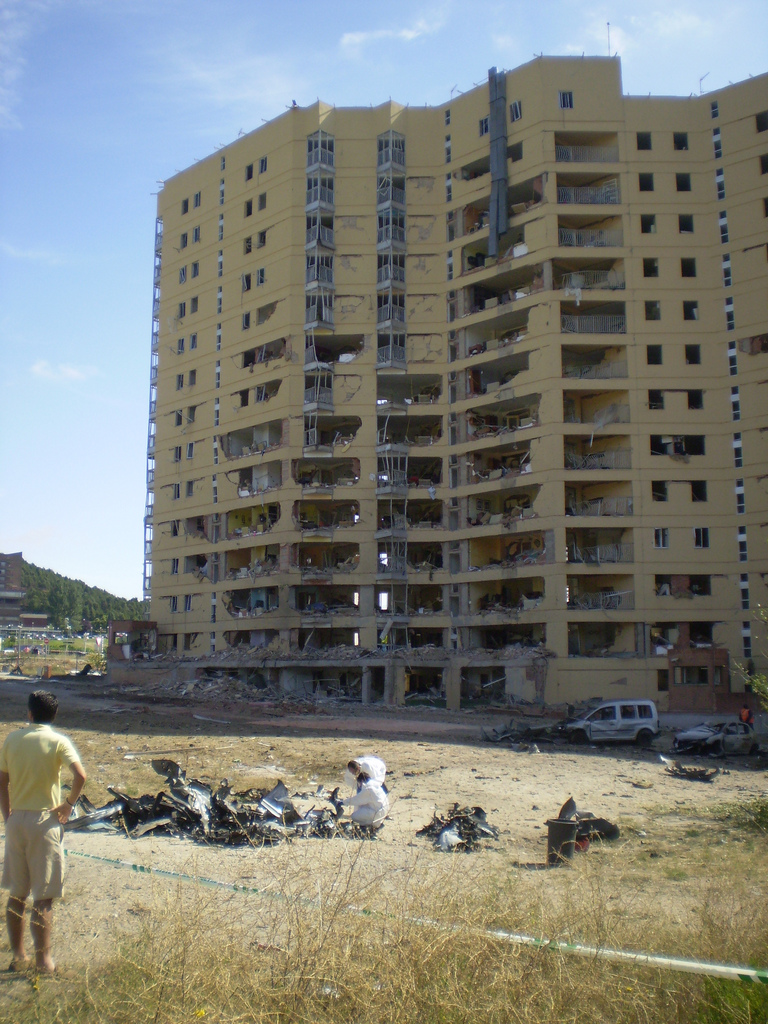 Guardia Civil barracks in the northern city of Burgos, Spain, after the July 2009 bombing.